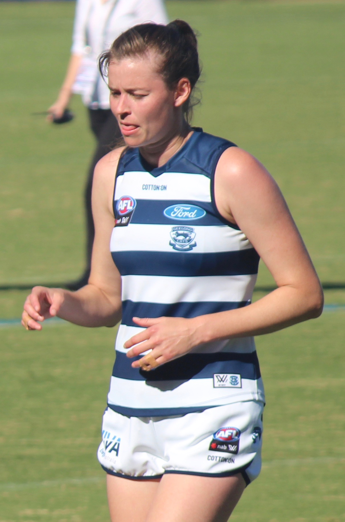 Erin Hoare with Geelong during a match against Carlton at Kardinia Park in round 4 of the 2019 AFL Women's season.